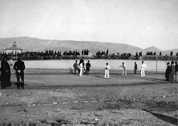 1896 Summer Olympics. Tennis doubles final. Original desciption on the picture: "Eine Szene vom Lawn Tennis zu Phaleron" ("a scene of Lawn Tennis at Phaleron"). Below both players on the right side of the court is written "Traun" (left, refers to Friedrich Traun) and "Boland" (right, John Pius Boland).